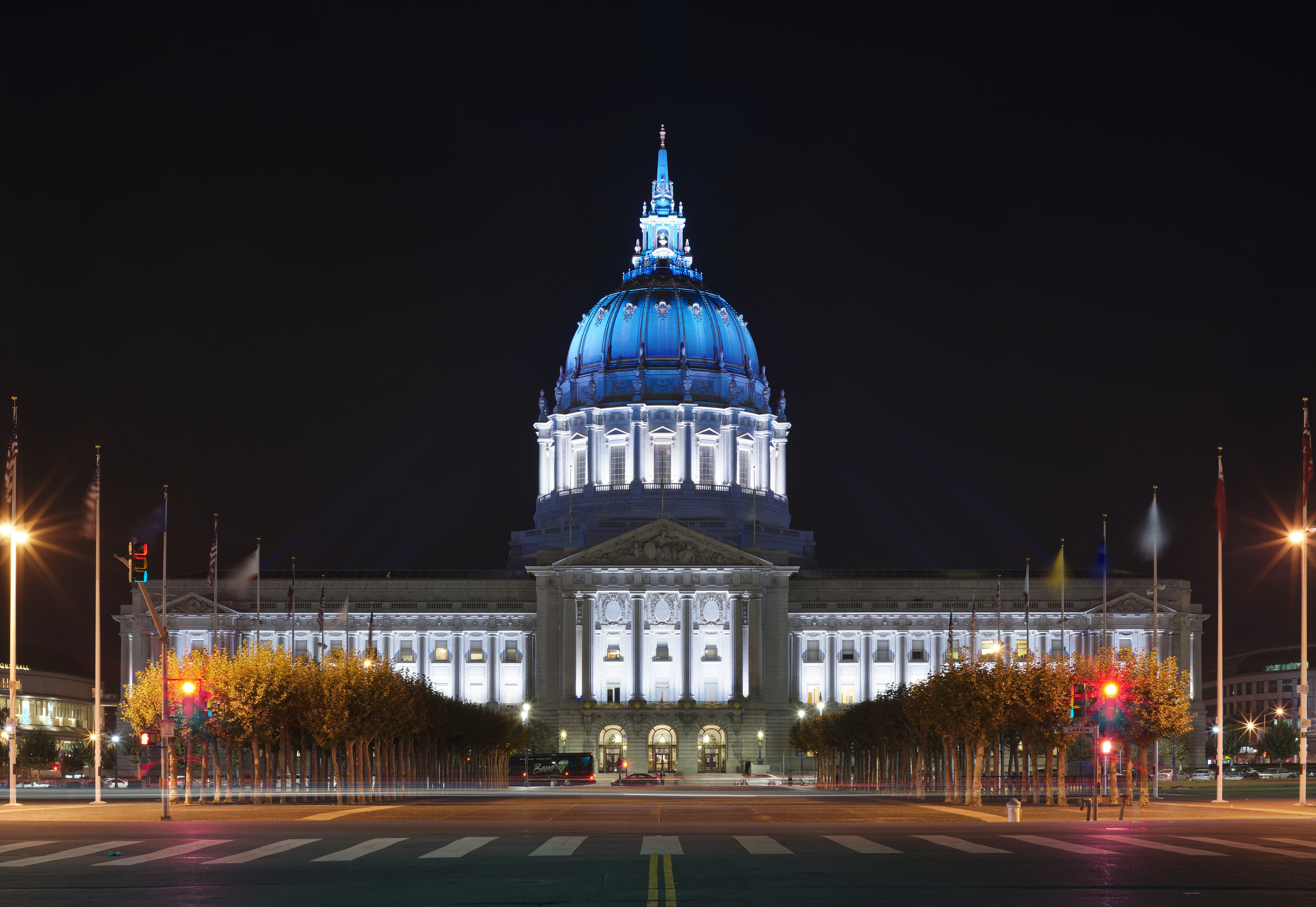 The San Francisco City Hall is the seat of the government of San Francisco. Completed in 1915, it is a Beaux-Arts monument to the City Beautiful movement that epitomized the high-minded American Renaissance of the 1880s to 1917. The structure's dome is taller than that of the United States Capitol by 42 feet.